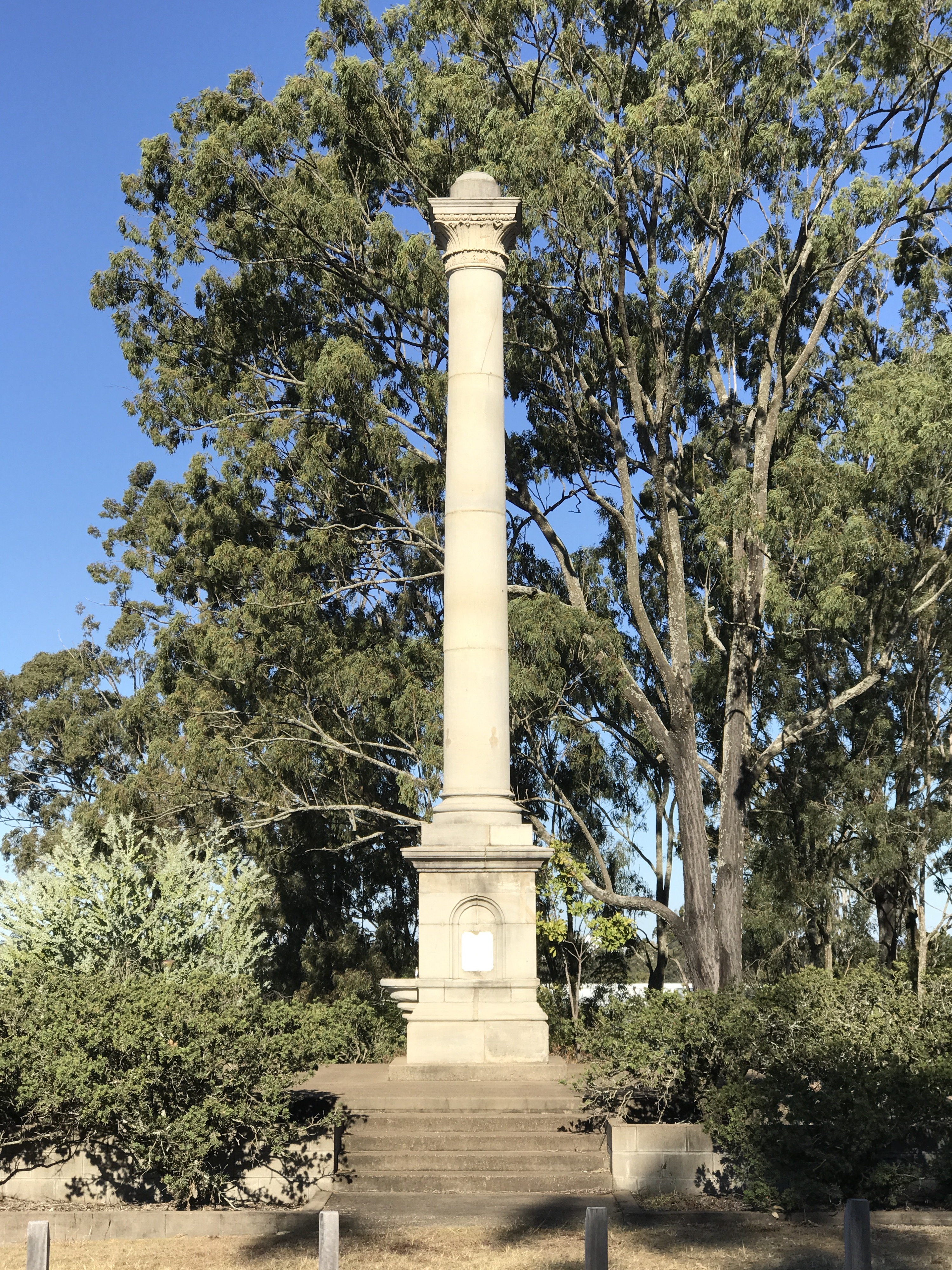 Samuel Wensley Blackall Memorial Fountain, Ipswich, Queensland